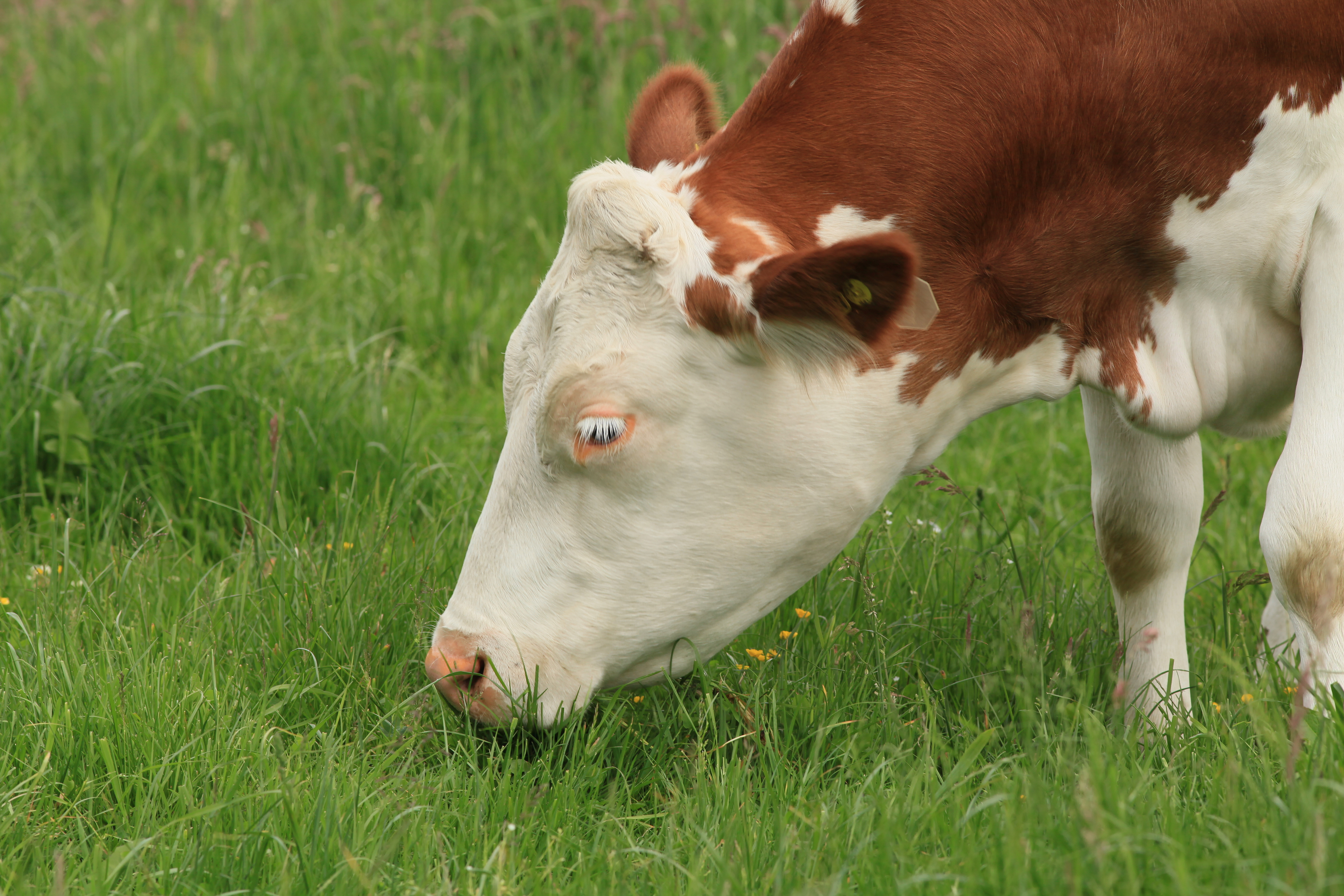 Young female cattle on a meadow in Radevormwald